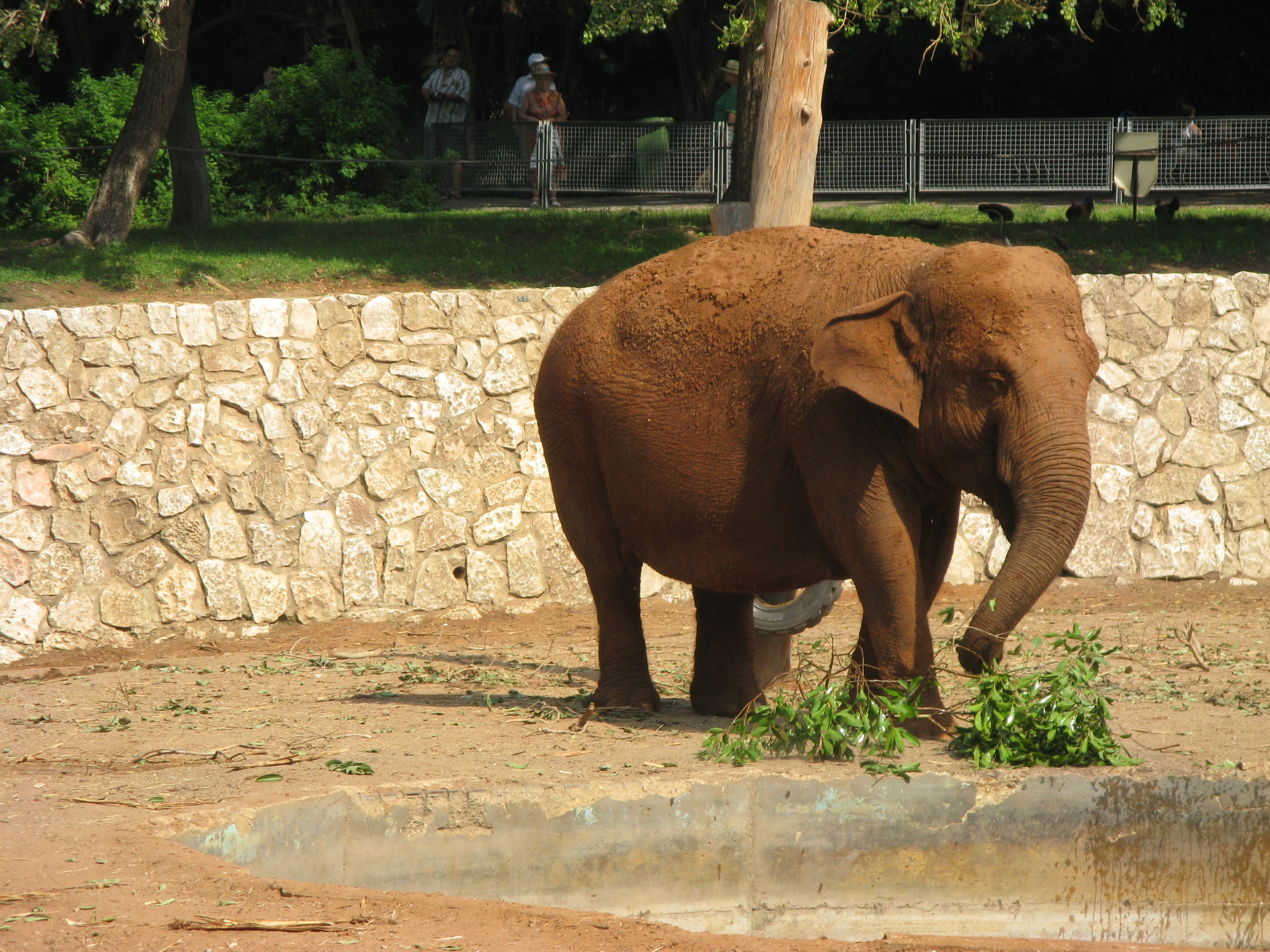 An Asian Elephant (Safari of Ramat Gan, Israel)